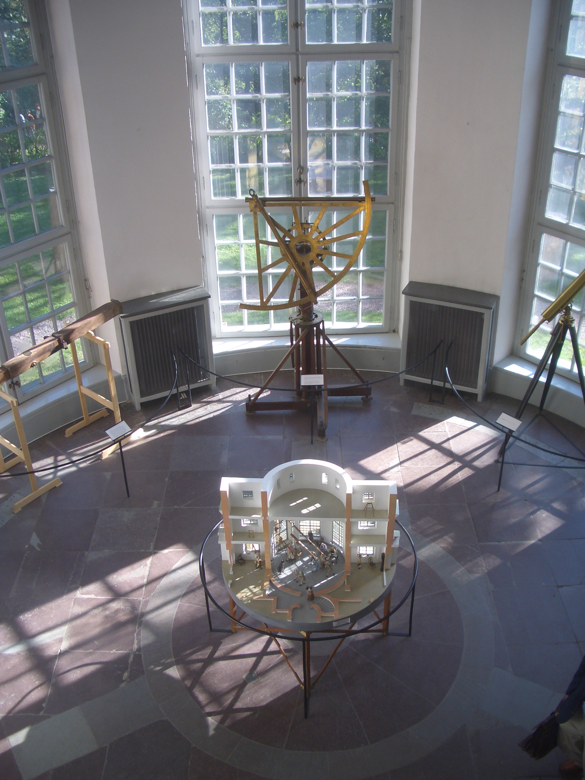 Placed by author under GFDL 1.2 and CC-Share-Alike 1.0, 2.0, 2.5, or any later version.